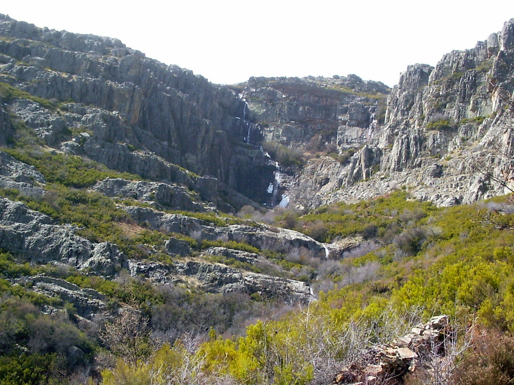 Despeñalagua waterfalls, under Ocejón peak, next to Valverde de los Arroyos (Guadalajara, Spain).